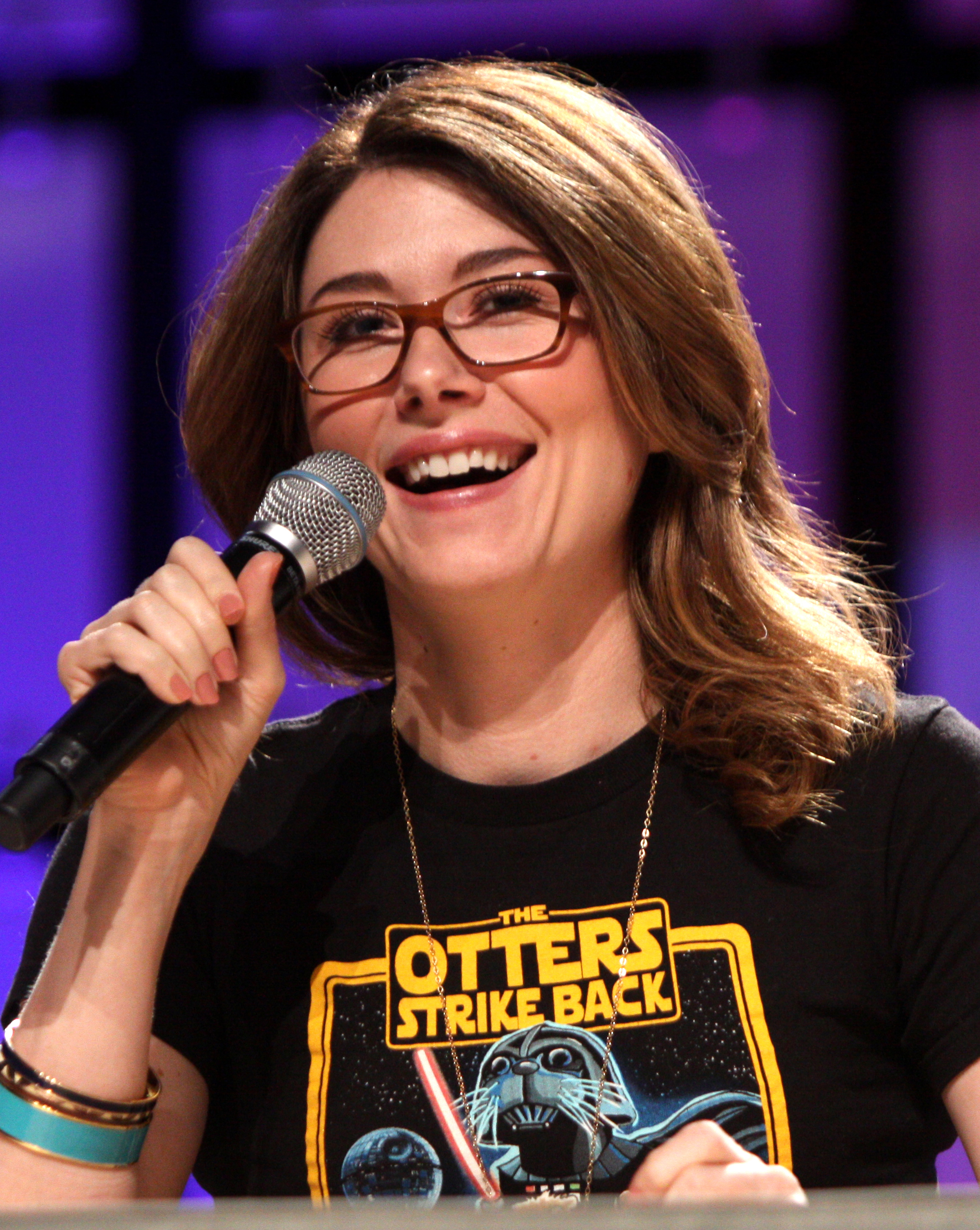 Jewel Staite at the 2013 Phoenix Comicon in Phoenix, Arizona.